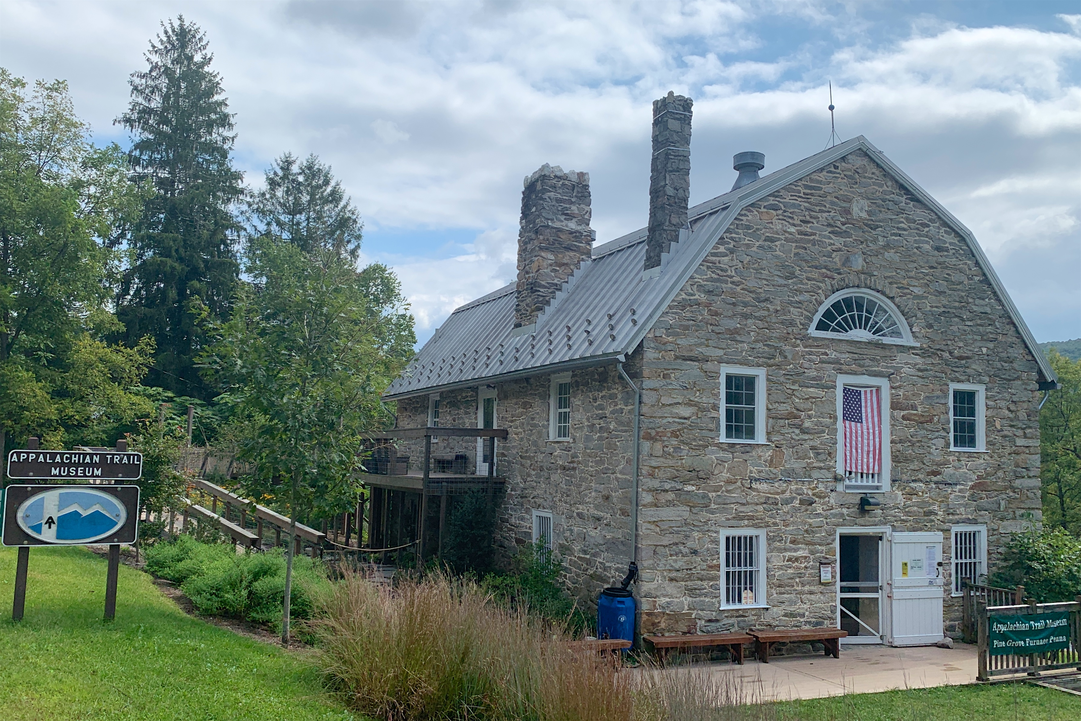 The former grist mill of the Pine Grove Iron Works in Cumberland County, Pennsylvania. Now used as the Appalachian Trail Museum.